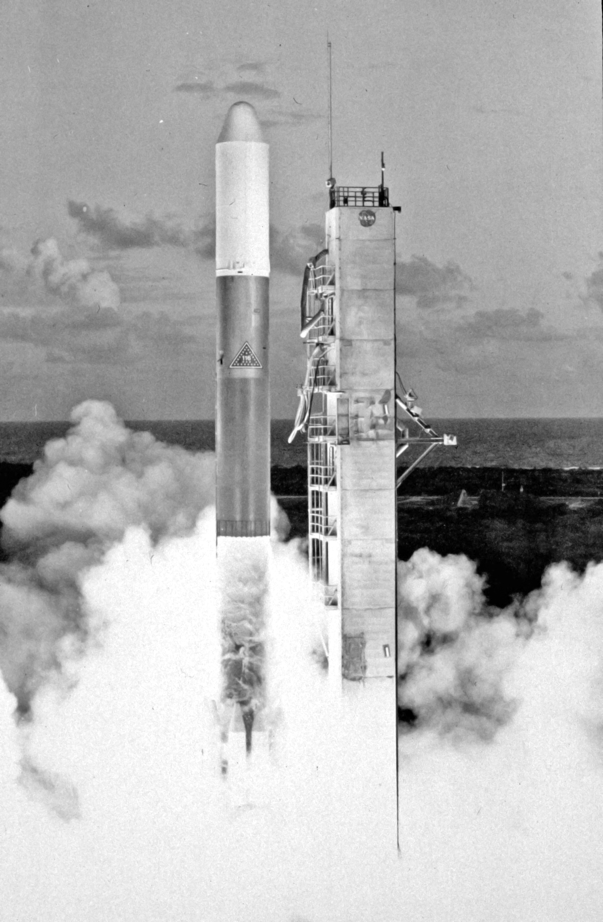 GOES-1, Geostationary Operational Environmental Satellite-1, lifts off aboard Delta Launch Vehicle 116.